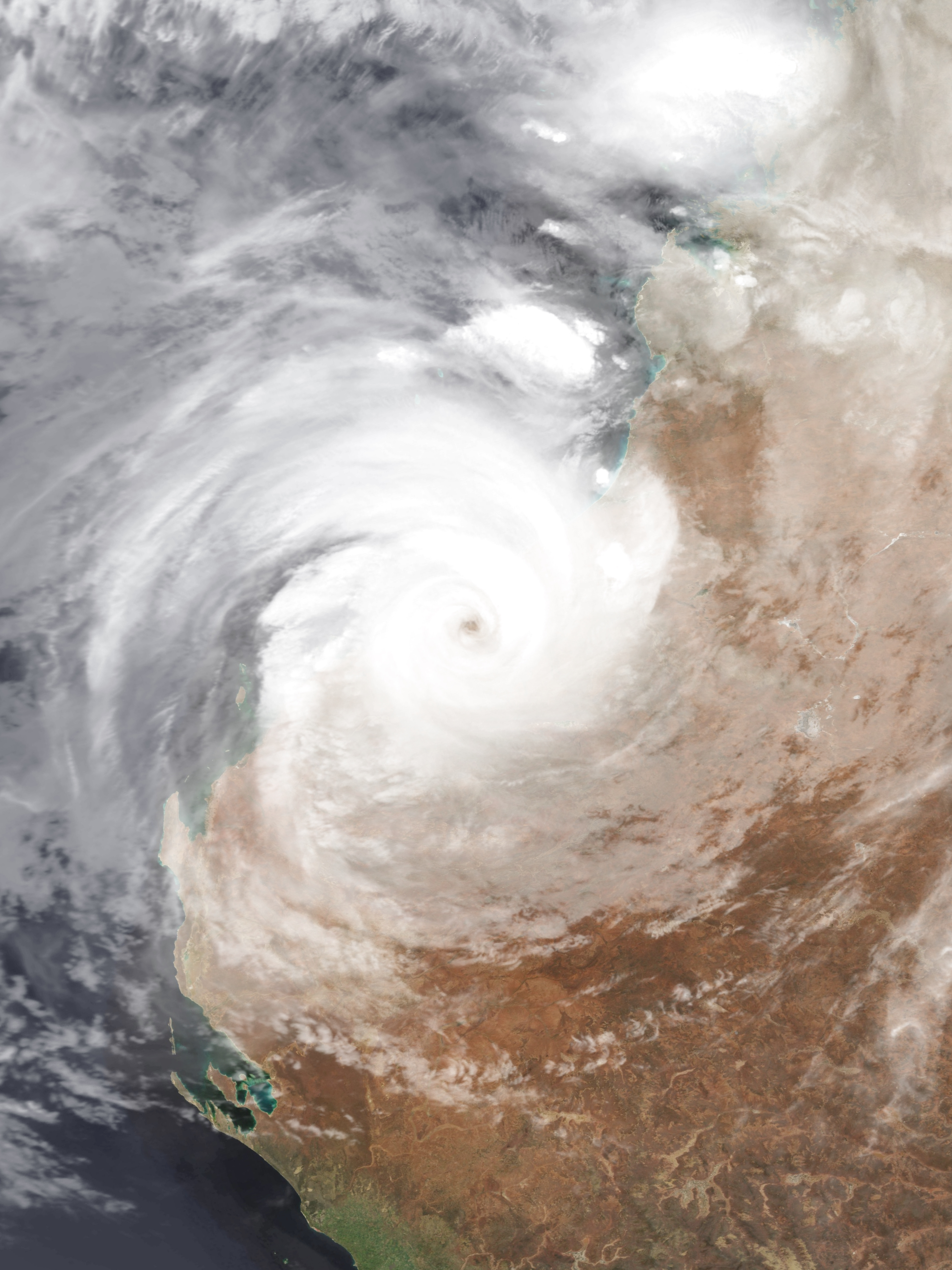 Severe Tropical Cyclone George on March 8, 2007